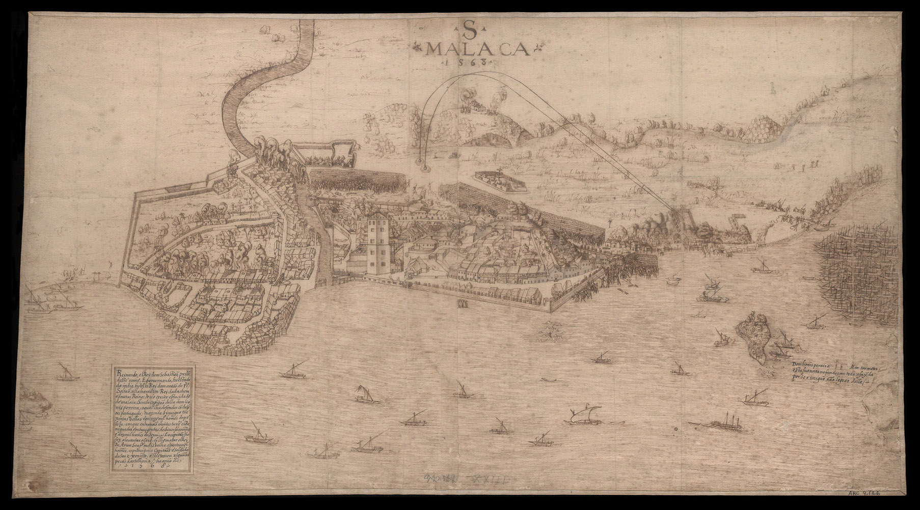 A Portuguese depiction of Malacca in 1568, as it was sieged by forces of the Sumatran Sultanate of Aceh that year. The author is unknown. The drawing includes two descriptions which read, on the left: "During the rule King Sebastian, first of this name, governing the State of India was the viceroy Dom Antão de Noronha, Sultan Allaudin of the Kingdom of Aceh and other kingdoms came to siege this city of Malacca. Its captain was Dom Lionis Pereira, who defended it with two-hundred Portuguese, and the enemy brought three-hundred sails and fifteen-thousand fighting men, in which came many Turks and renegades and other people of various nations, and ten-thousand labourers. The captain had him lift the siege, killed the King of Aru his eldest son, and four thousand soldiers, the main Captains and soldiers of his army and captured from him some artillery pieces, in the year of 1568." On the right: "Dom Lionis had this nao put to the bottom with all the merchadise so the enemy wouldn't capture it".